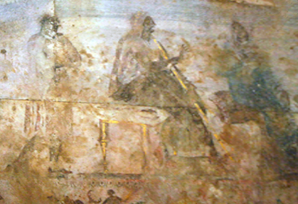 Hekatomnos tomb frescoe